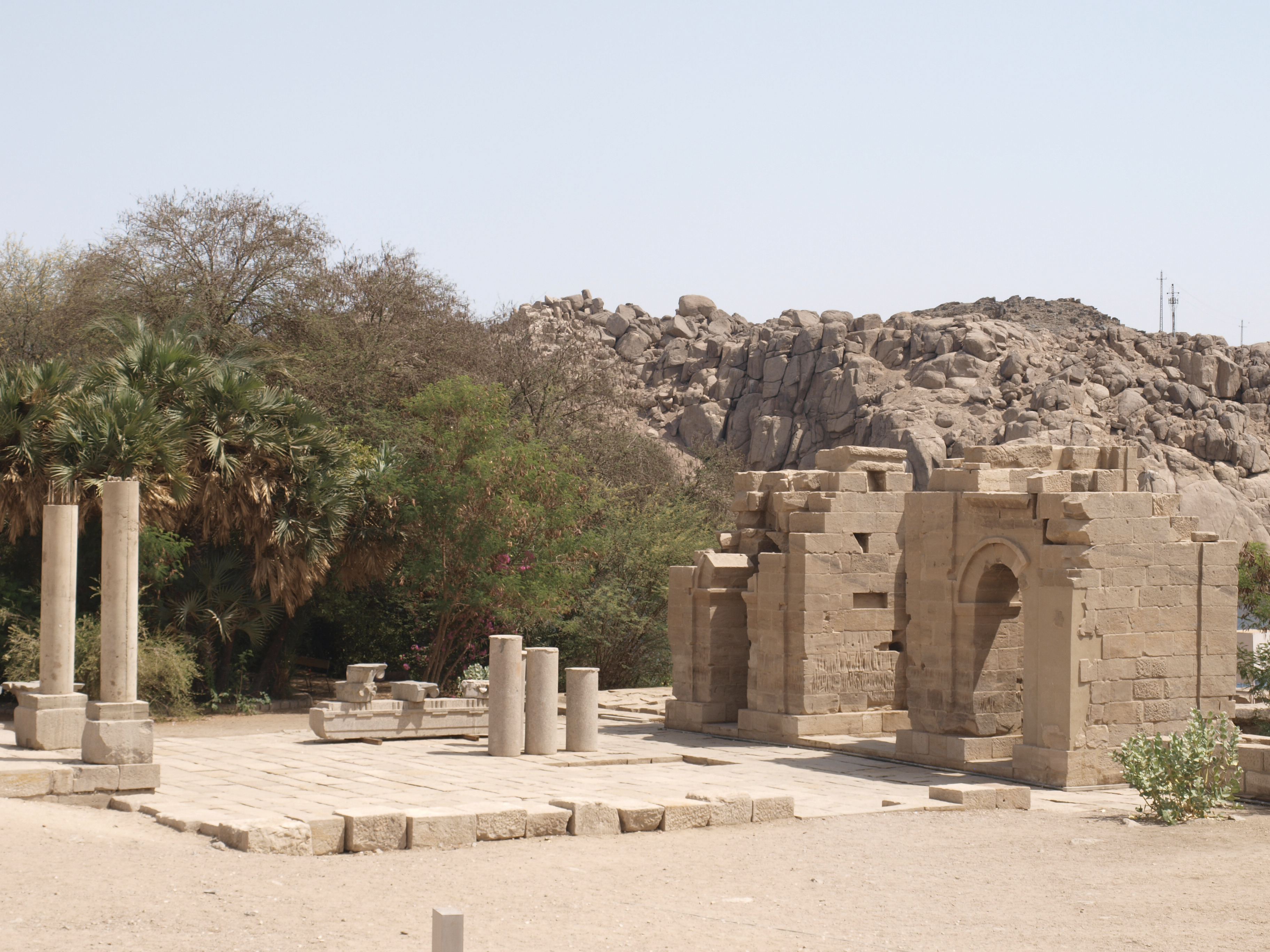 Philae /ˈfaɪliː/ (Greek: Φιλαί Philai; Ancient Egyptian: Pilak, P'aaleq; Arabic: فيله [fiːlɐ]) is an island in Lake Nasser, Egypt. It was formerly an island in the First Cataract of the Nile River and the previous site of an Ancient Egyptian temple complex in southern Egypt. The complex was dismantled and relocated to nearby Agilkia Island during a UNESCO project started because of the construction of the Aswan Dam, after the site was partly flooded by the earlier Aswan Low Dam for half a century.